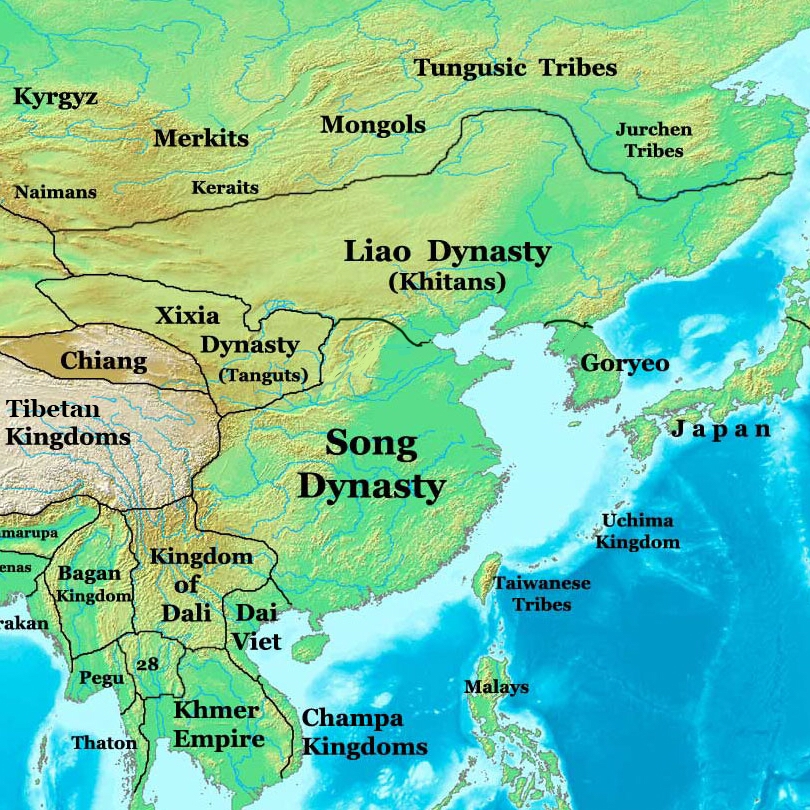 A crop of File:Asia 1025ad.jpg, centering on the Liao Dynasty. World map of empires as of 1025 CE.